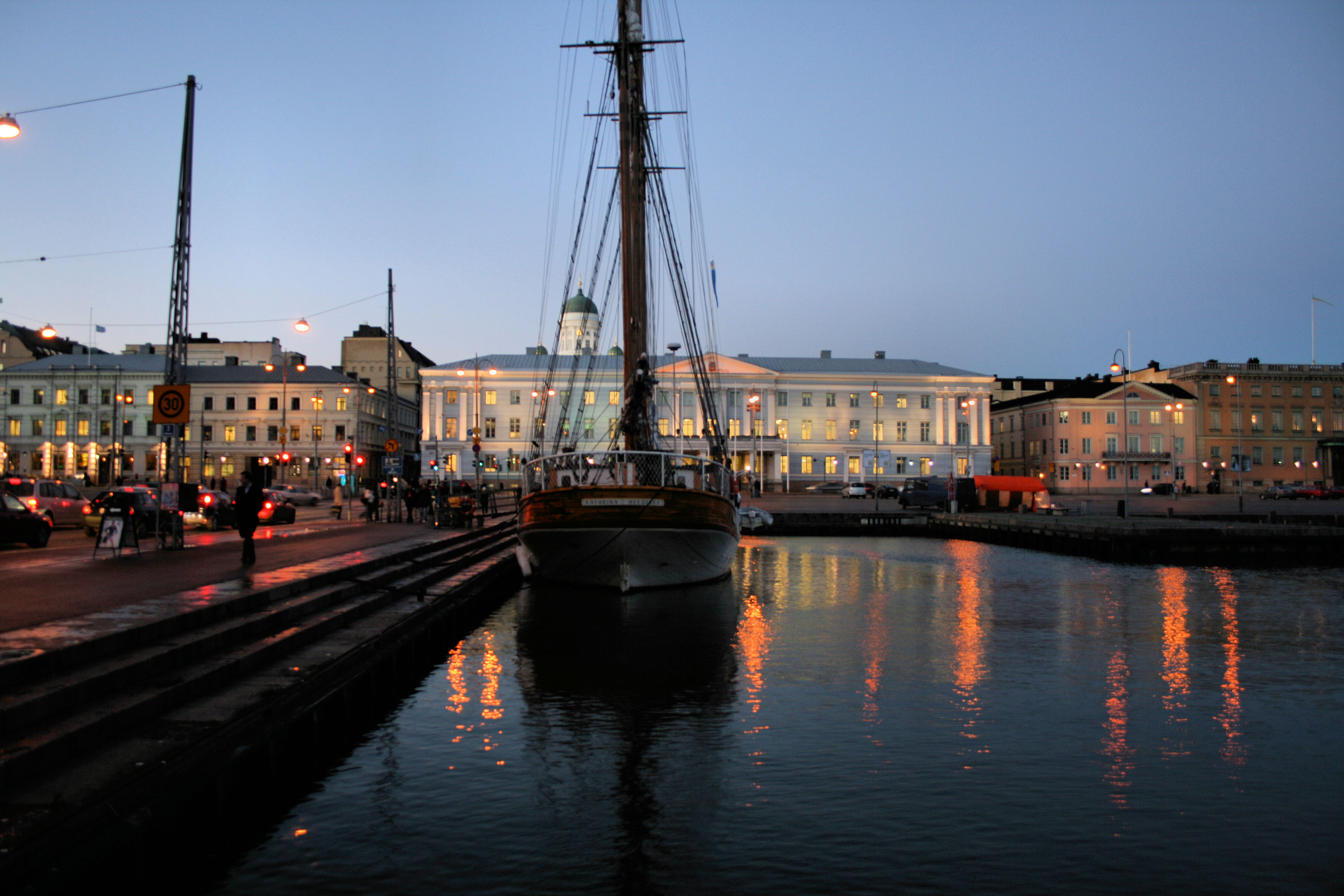 The Cholera basin by the Market Square in Helsinki, Finland, with the City Hall on the backgroung.